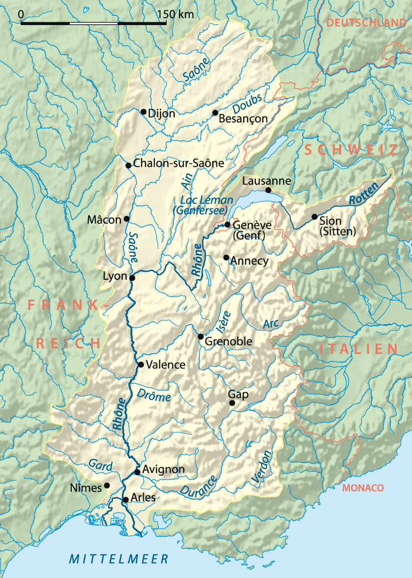 Drainage basin of Rhône River